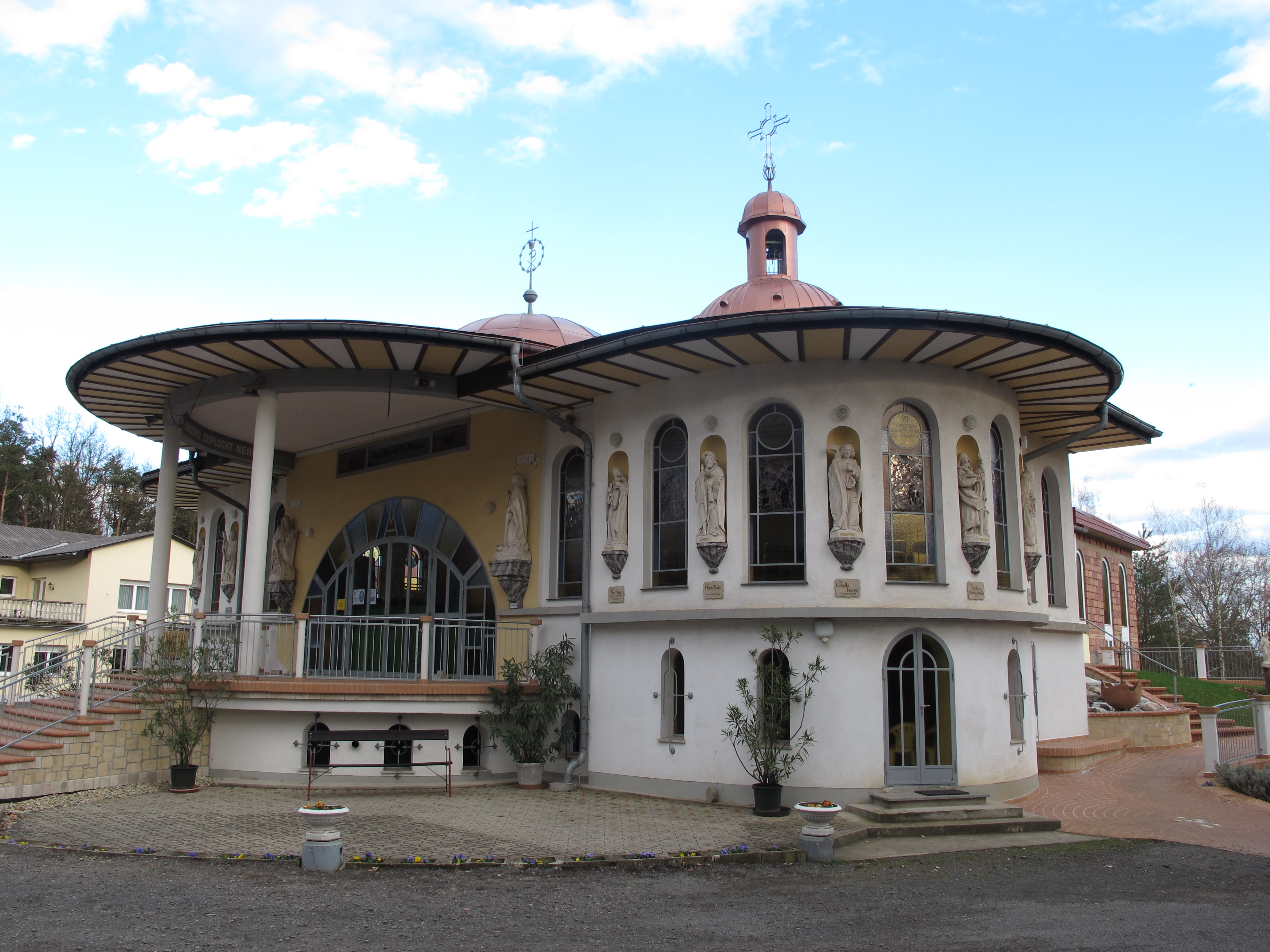 Fatima Kapelle Bierbaum Troessing